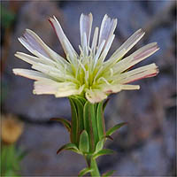 Rafinesquia californica (California plumeseed) — in the Simi Hills. Taken at the Cheeseboro and Palo Comado Canyons Open Space preserve: on the Cheeseboro Ridge Trail. Santa Monica Mountains National Recreation Area, Ventura County, Southern California. Source NPS photo, no copyright.